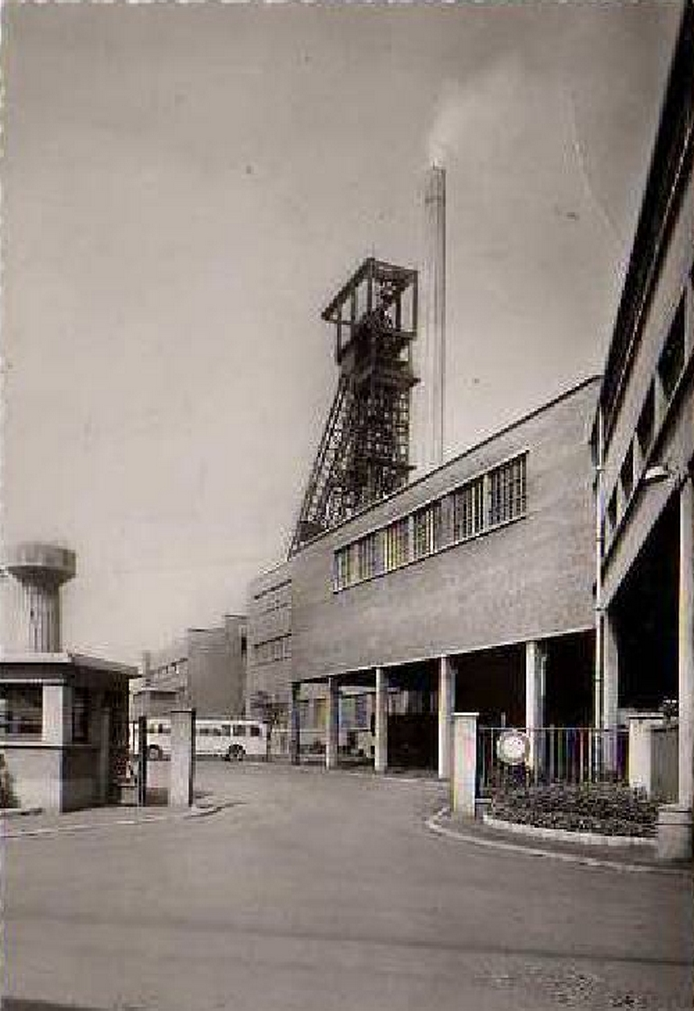 Pit of the Compagnie des mines d'Ostricourt, Nord-Pas-de-Calais, France.